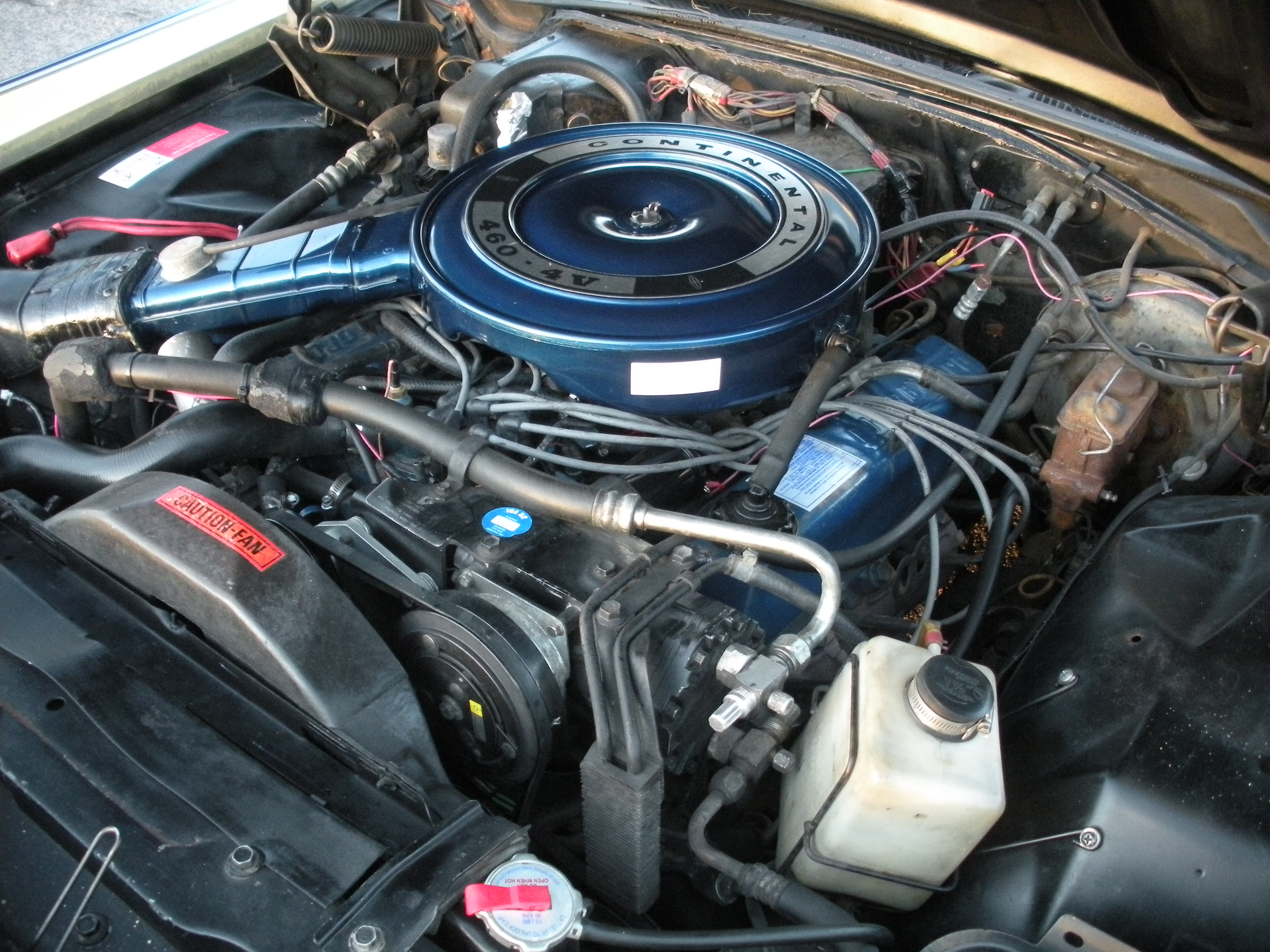 1971 Lincoln Continental Mark III Engine Bay with repainted air cleaner and factory-correct stickers.